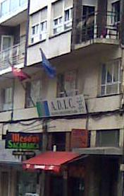 Agrupación para la Defensa de los Intereses de Cantabria (ADIC)'s headquarters in Santandé, Cantabria.